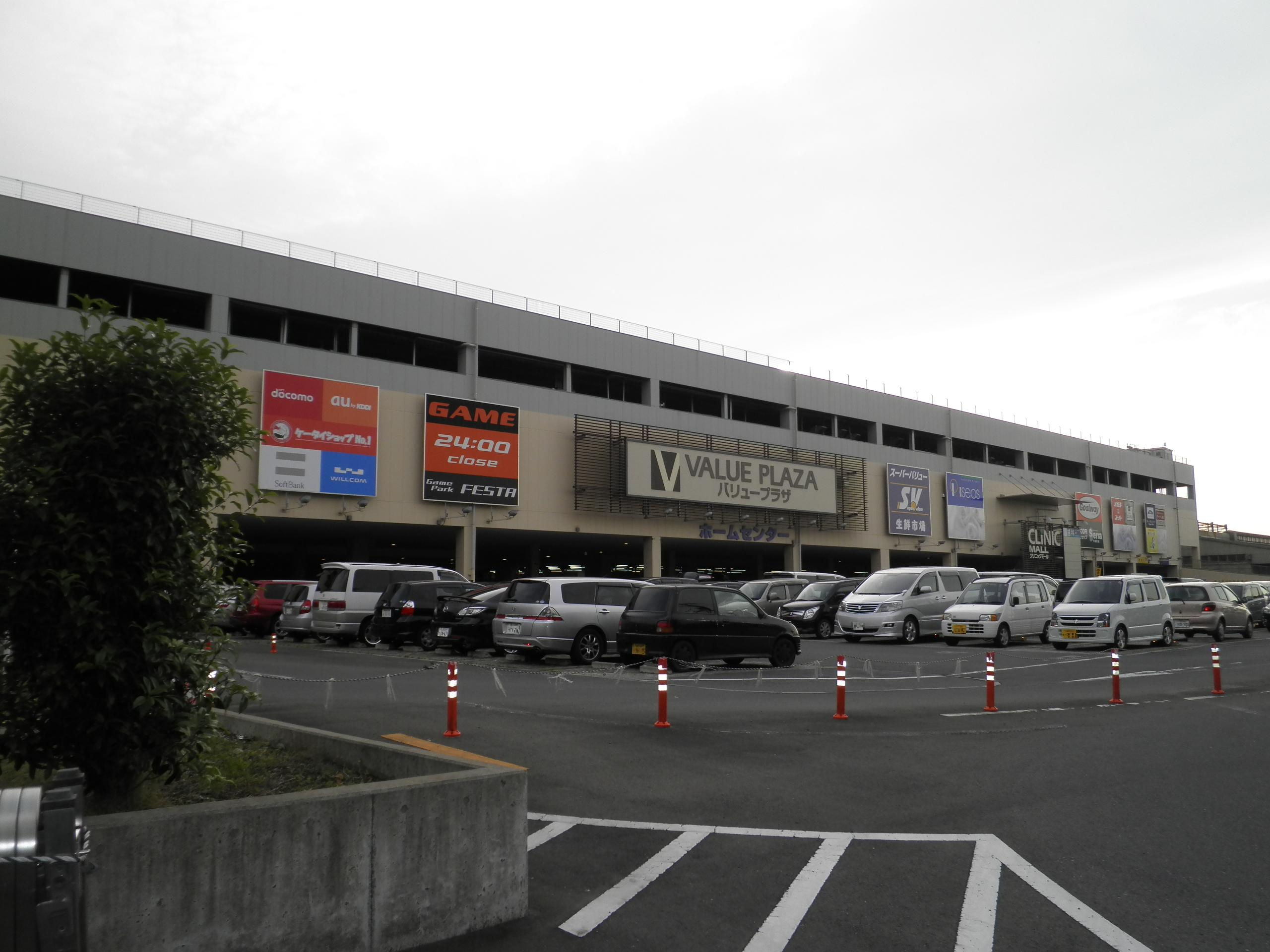 Super Value Co.,Ltd. Headquarters in Saitama, Japan.